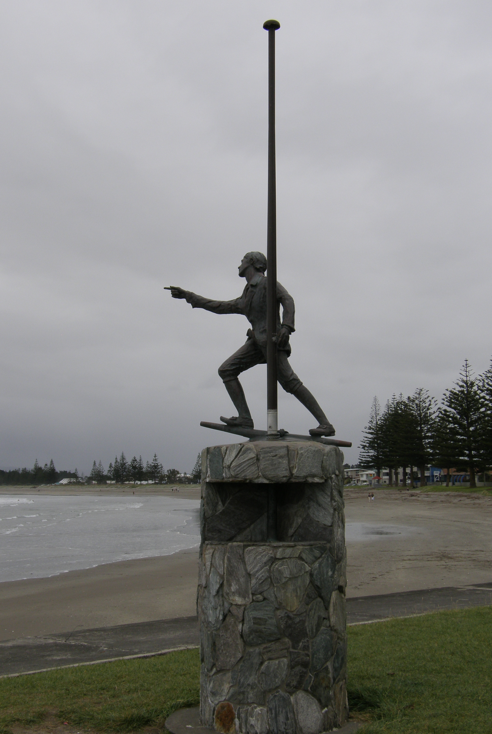 This statue, depicting the historic sighting of New Zealand by "Young Nick" aboard Captain Cook's ship "Endeavour" in October 1769 was presented by The New Zealand Insurance Company Limited to the City of Gisborne and unveiled by His Excellency The Governor General Sir Arthur Porrit on the occasion of the Cook bi-centenary celebrations 10 October 1969. Sculpted by Frank Szirmany of Auckland.